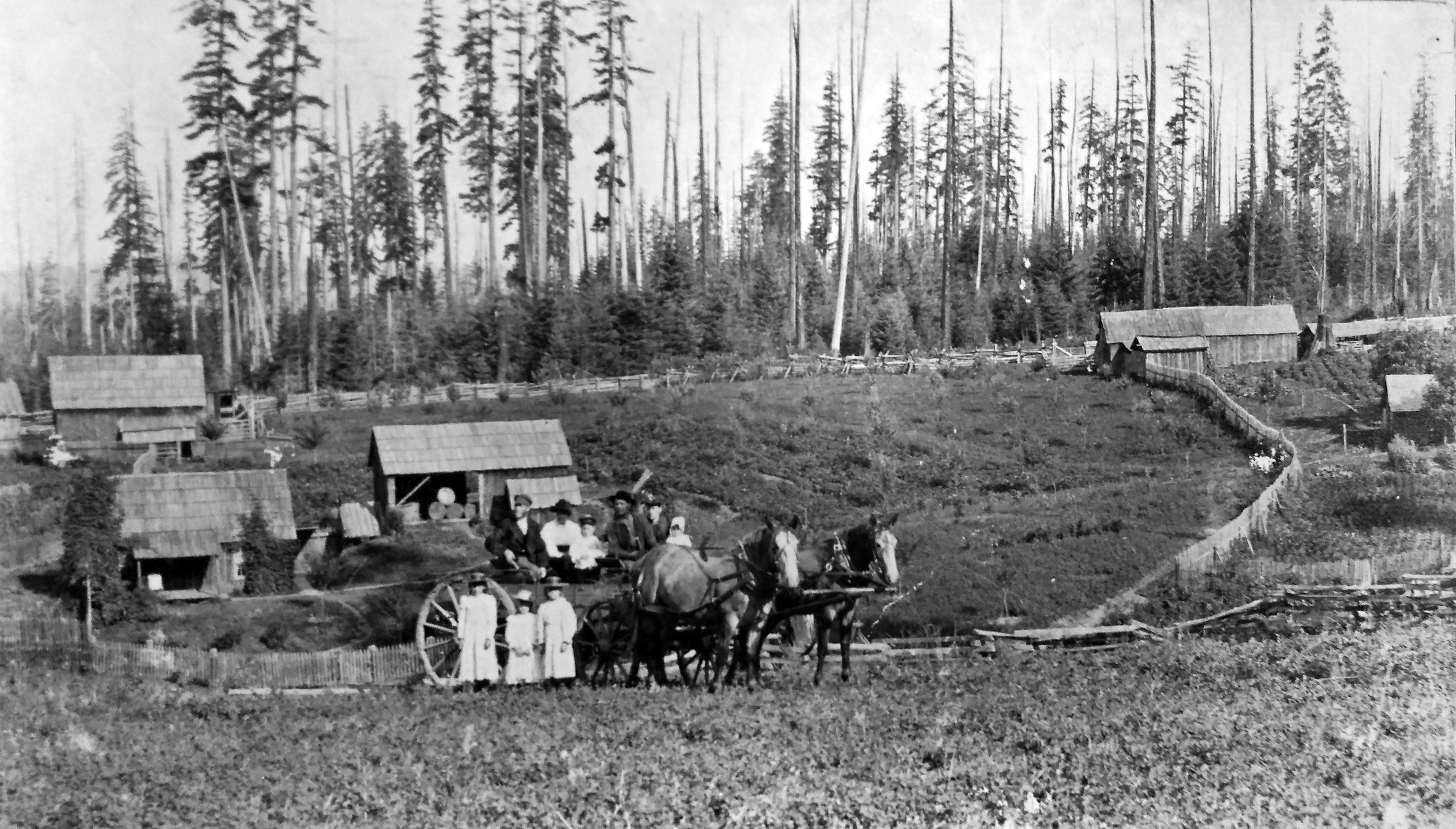 Caption indicates that the image was created in early 1890 of the Lonnborg family at their homestead on the west side of Oakville.